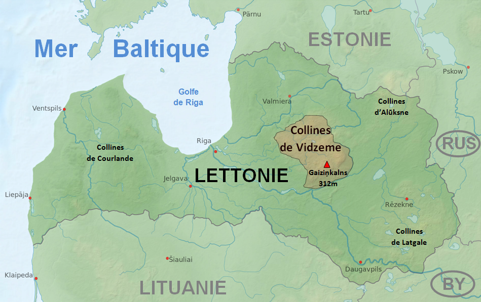 Location map in French of the Vidzeme Upland in Latvia based on relief-location maps by users: Karlis, NNW, Виктор В, Alexrk2, Chumwa. Equirectangular projection, N/S stretching 170 %. Geographic limits of the map: N: 58.5° N S: 55.5° N W: 20.5° E E: 28.6° E